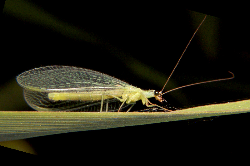 Description: jpeg image, (insect) Green Lacewing - Family Chrysopidae Source: Own work Author: Bruce Marlin Date created: 02/06/2005 Location: Winfield IL USA Other versions: none